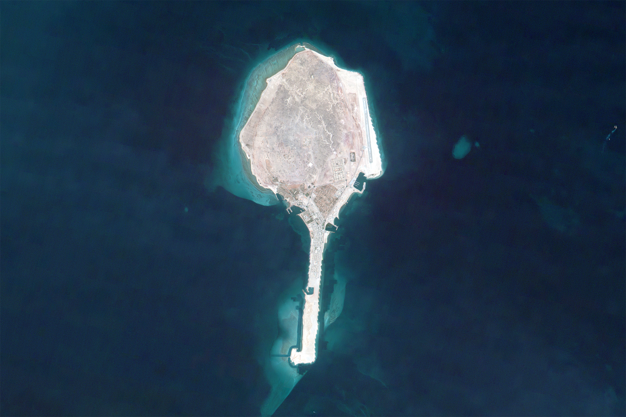 Dalma, an island of the United Arab Emirates, as viewed by Hodoyoshi-1 satellite.